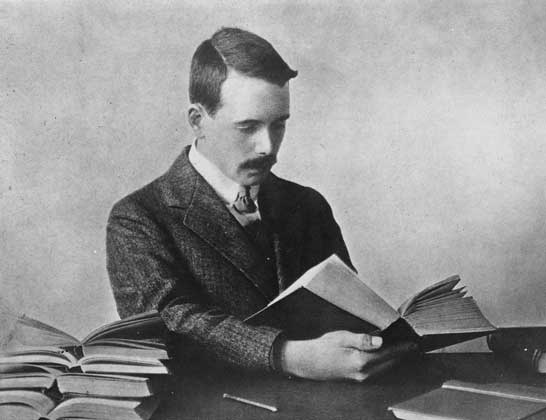 Henry Moseley (1887-1915), English chemist